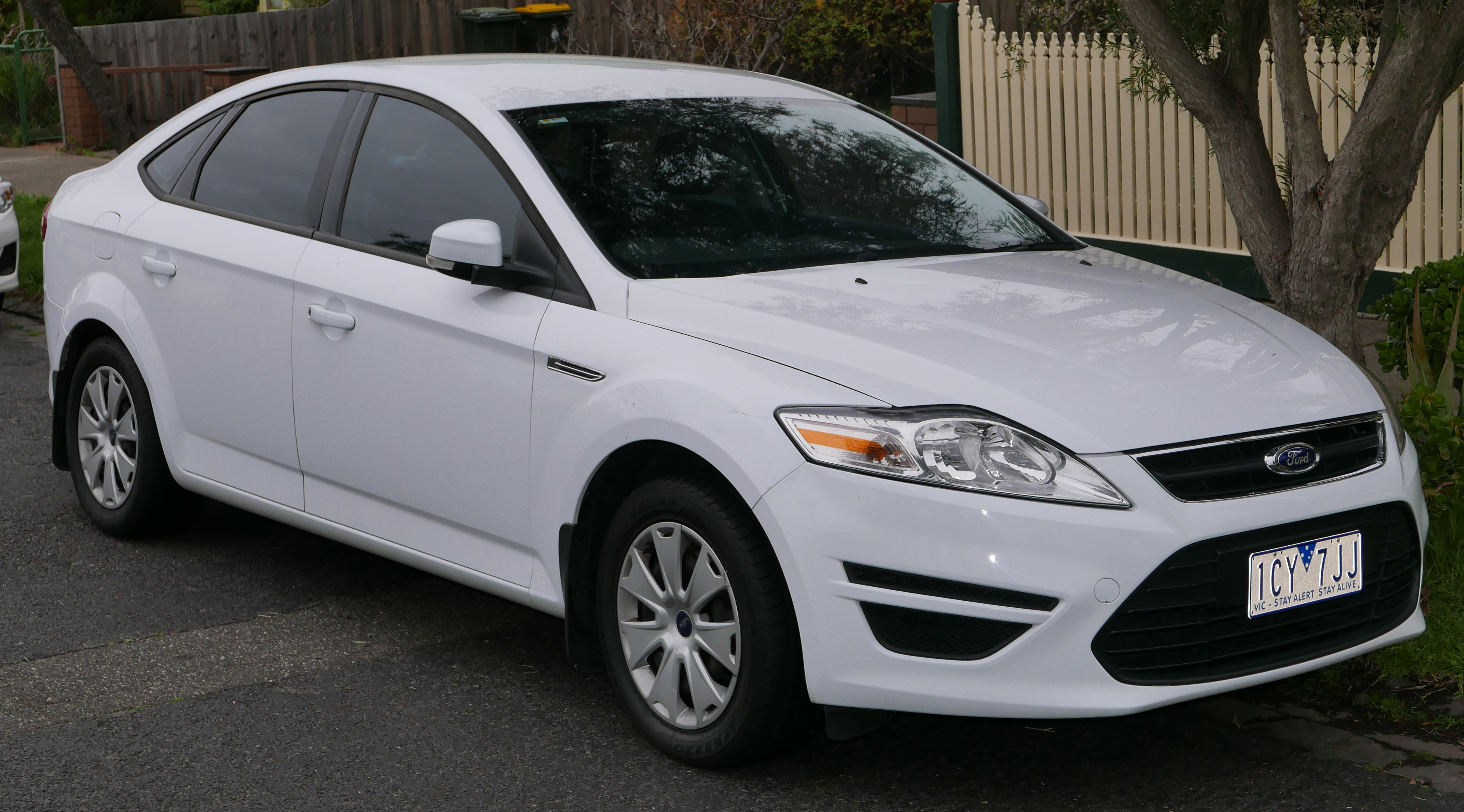 2011 Ford Mondeo (MC) LX hatchback. Photographed in Coburg, Victoria, Australia. Vehicle registration enquiry results Jurisdiction Victoria Registration 1CY7JJ Chassis code WF0EXXGBBEBD82426 Engine code SEBABD82426 Compliance date 2011-05 Year of manufacture 2011